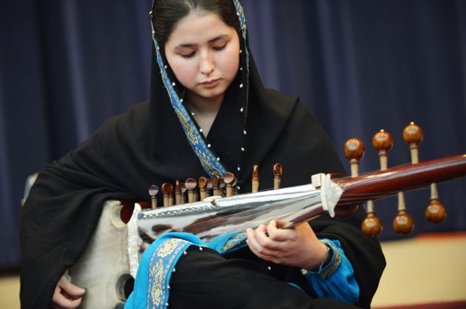 نګین خپلواک